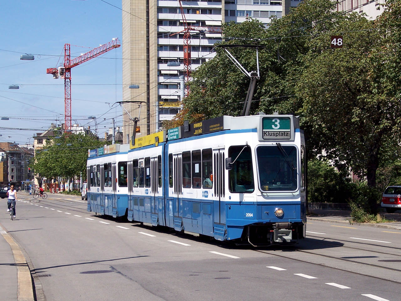 Trams in Zürich: A route 3 set composed of a Be 4/6 "Tram 2000" and a cabless Be 2/4 "Pony" on Badenerstrasse near Kalkbreite.